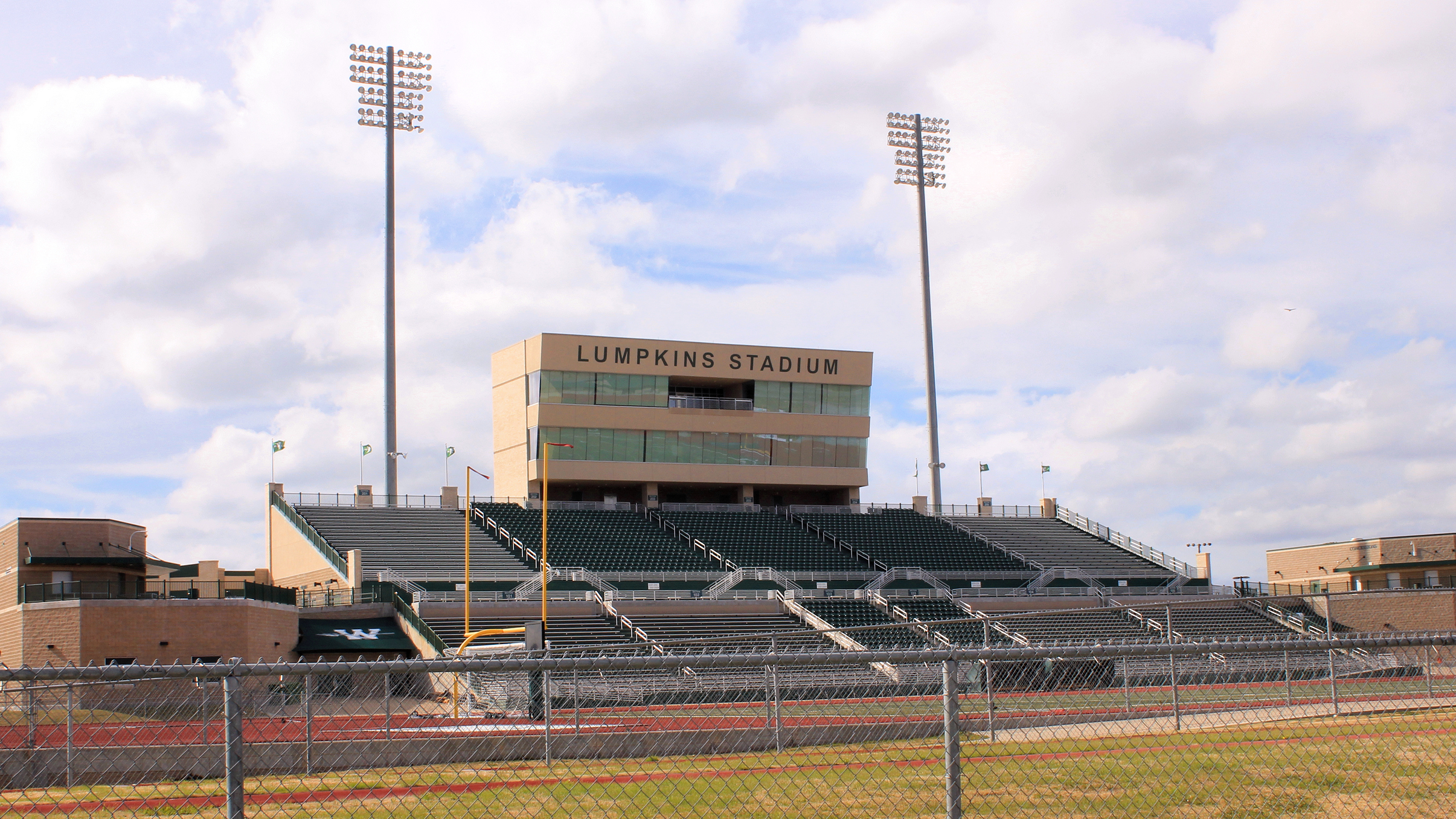 Stuart B. Lumpkins Stadium in Waxahachie, Texas United States is an American football venue that was opened in 1972. The stadium is used by Waxahachie High School and Southwestern Assemblies of God University.